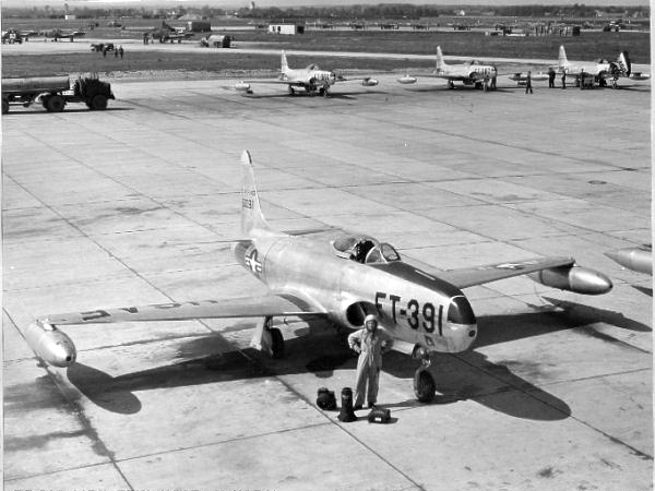 RF-80A Serial 45-8391 of the 160th Tactical Recon Squadron, Toul Air Base France, 1952